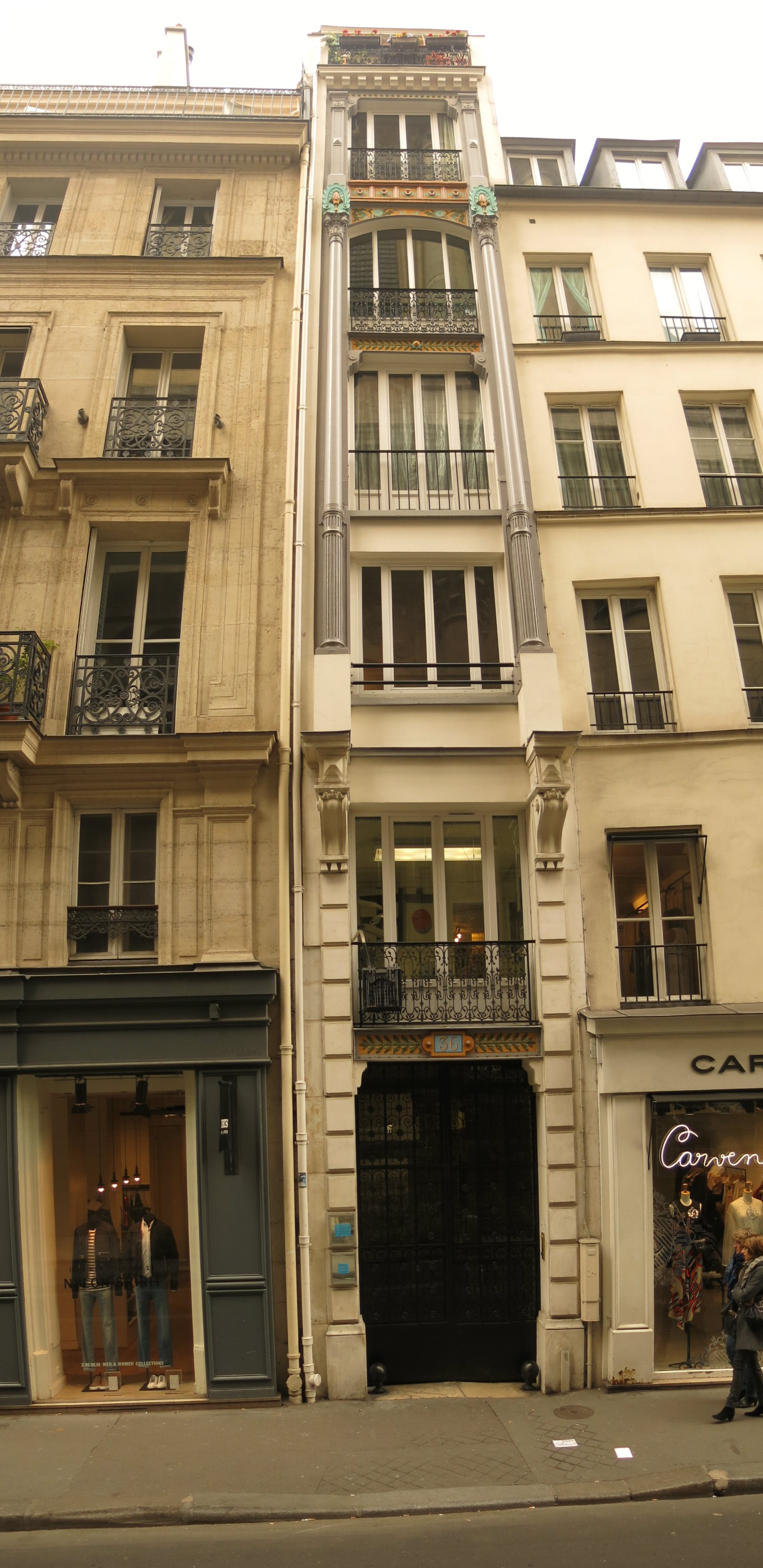 Building 36 rue Saint-Sulpice, Paris 6th arrond. (France). It is a former brothel : chez miss Betty.